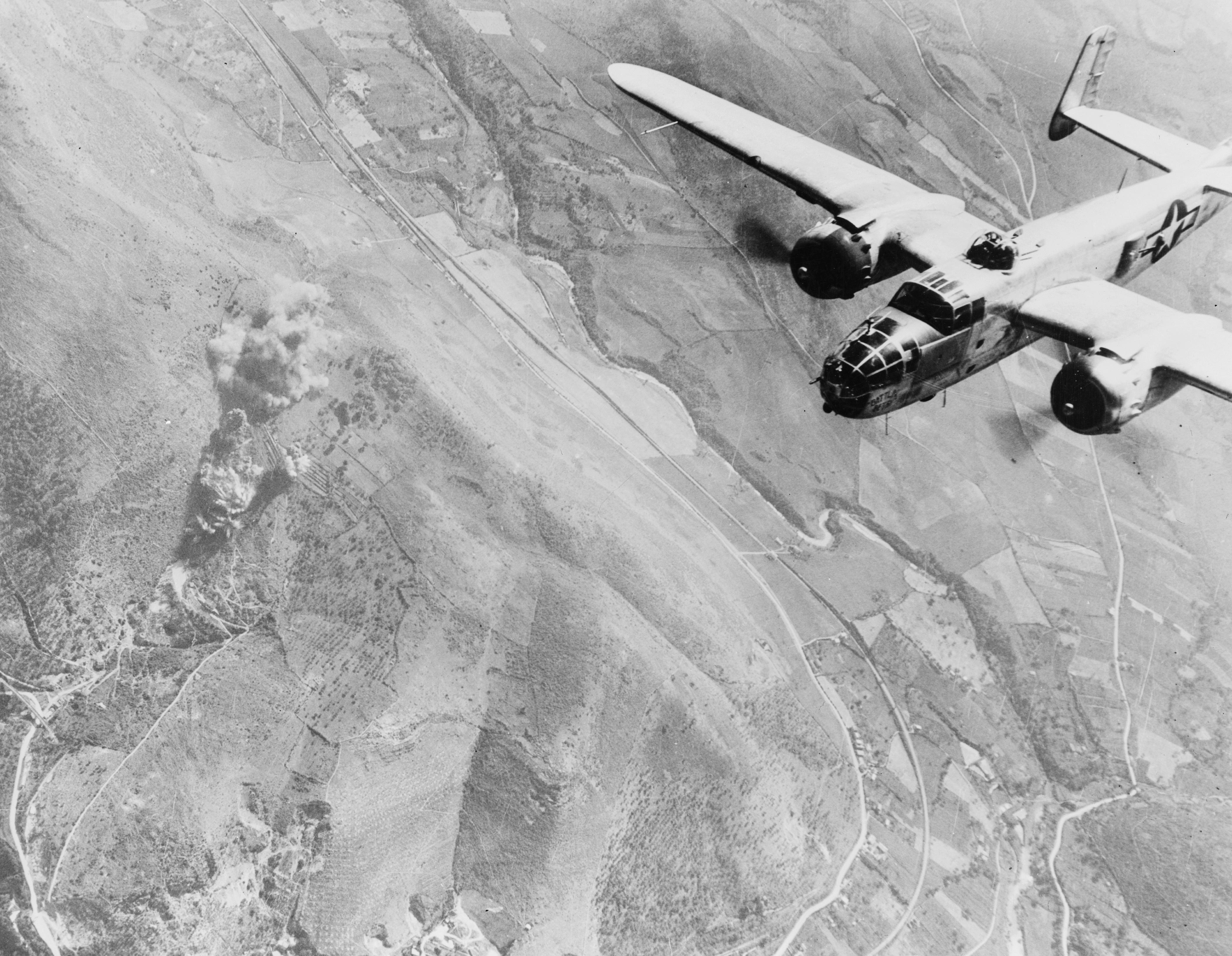 A Nazi supply dump goes up in smoke. A U.S. B-25 medium bomber roars over Tivoli, Nazi supply center ten miles east of Rome. Now a smoking ruin, it was used by the Germans as a terminal for routing reinforcements to battle areas.